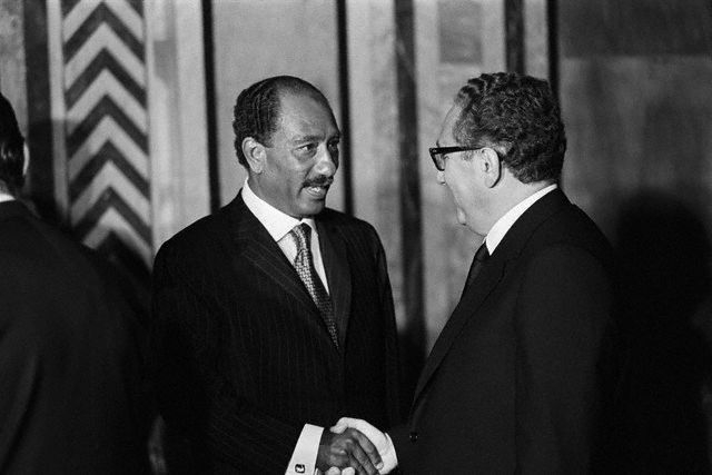 Egyptian President Anwar Sadat (left) and Henry Kissinger, U.S. National Security Adviser and Secretary of State. From the booklet "President Nixon and the Role of Intelligence in the 1973 Arab-Israeli War." For more information, visit